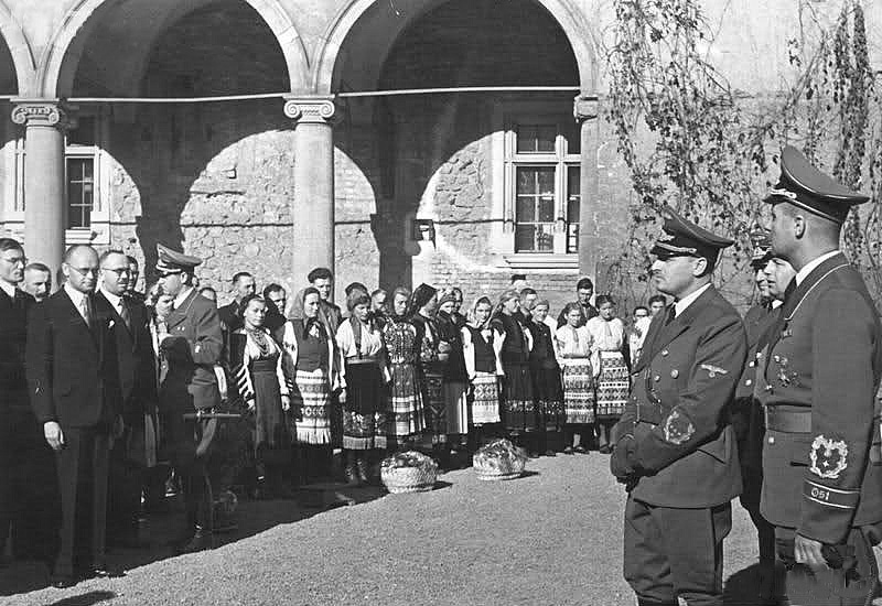 "Dożynki na Wawelu. Z wizytą u Hansa Franka delegacja ukraińska. 24.10.1943 r. " Nrodowe Archiwum Cyfrowe.